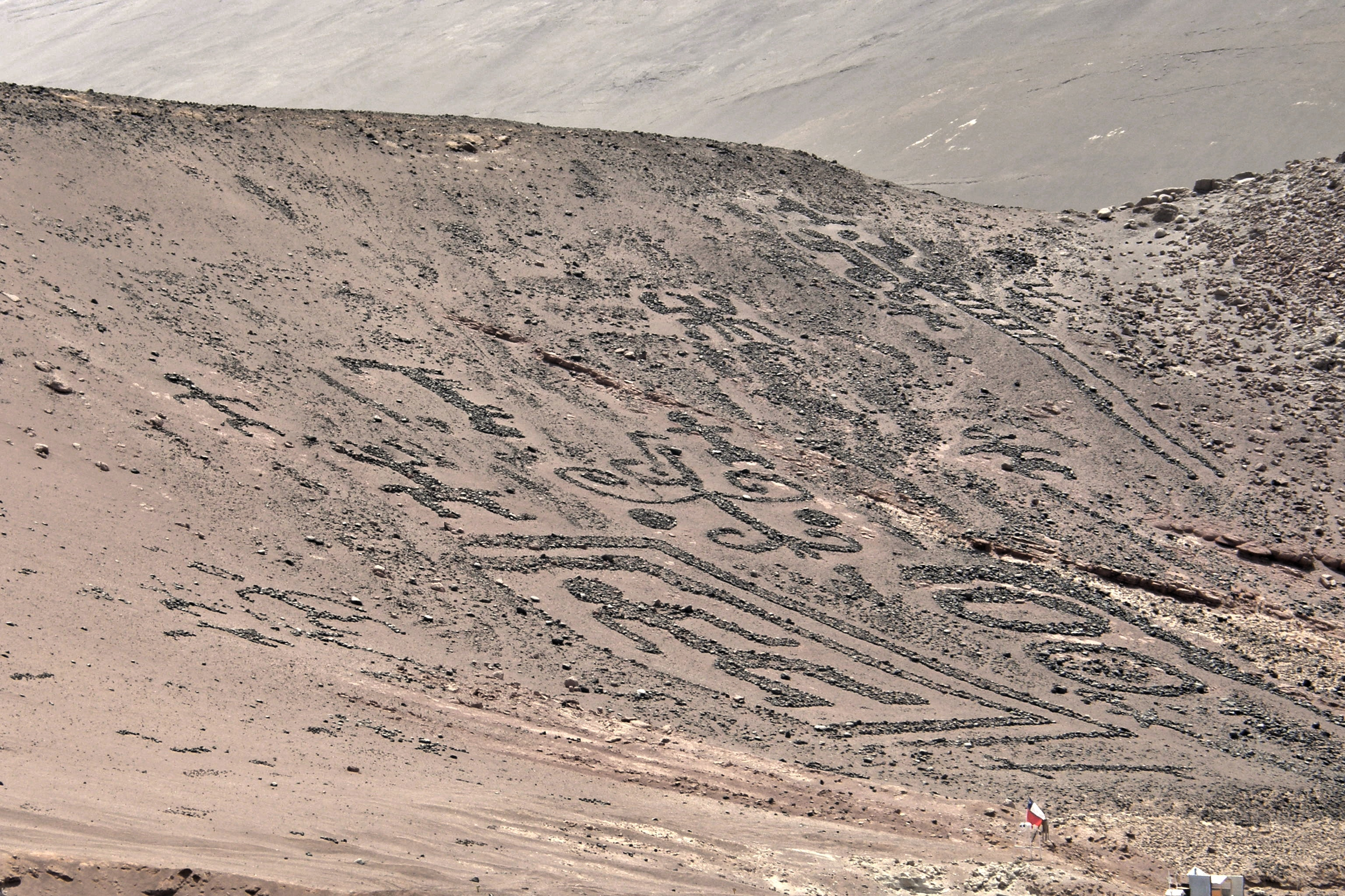 Geoglyphs of Chiza, municipality of Huara, province del Tamarugal, region of Taracapa, Chile